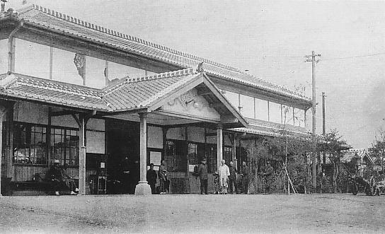 Wakayama Station in Meiji and Taisho eras